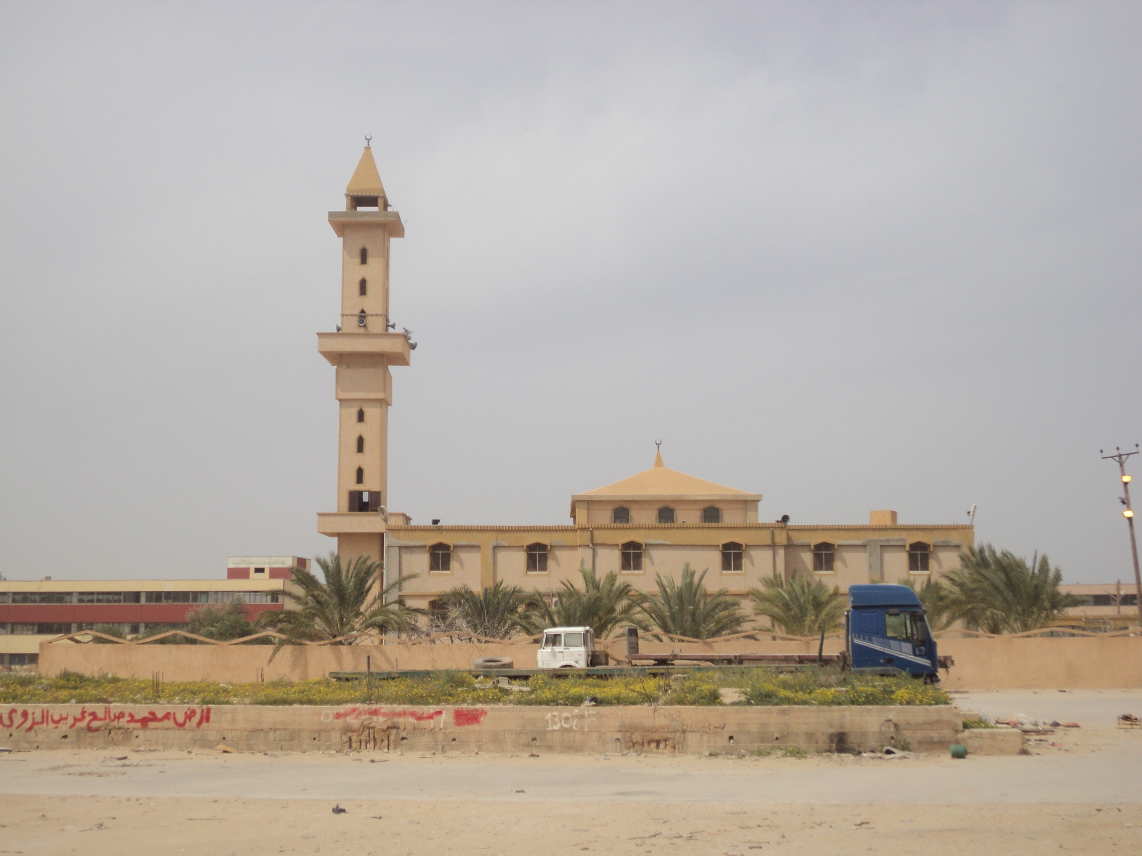 Talha ibn Ubaid Allah mosque, Benghazi.